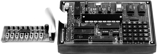 MICO-80 microcomputer and input/output device EAM-80